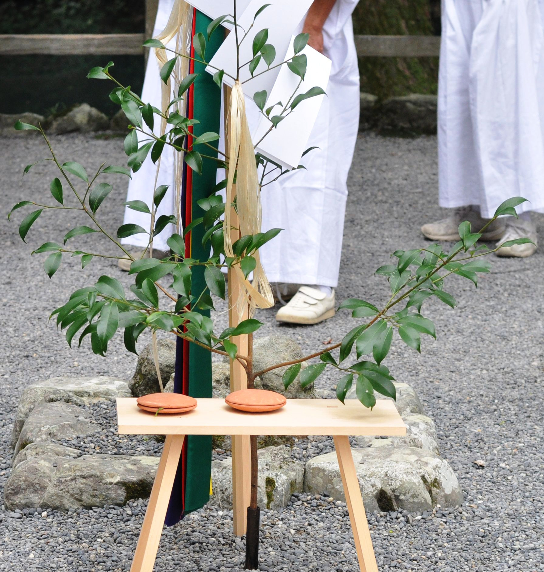 Edit to File:Kawarake 001.jpg. Its Ōnusa of traditional style, so lace of the Hemp added to tree of Sakaki (Cleyera japonica). GEO data is in the Gekū of Ise Grand Shrine.